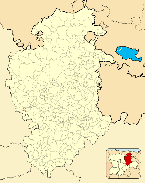 Location map of Province of Burgos Equirectangular projection, N/S stretching 130 %. Geographic limits of the map: * N: 43.266184° N * S: 41.402666° N * W: 4.403259° O * E: 2.473899° O